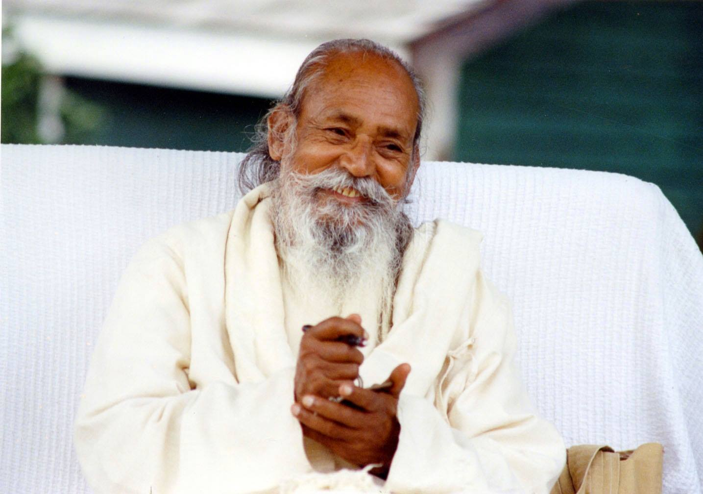 silent teaching, Mount Madonna Center, Watsonville, CA, around 2006